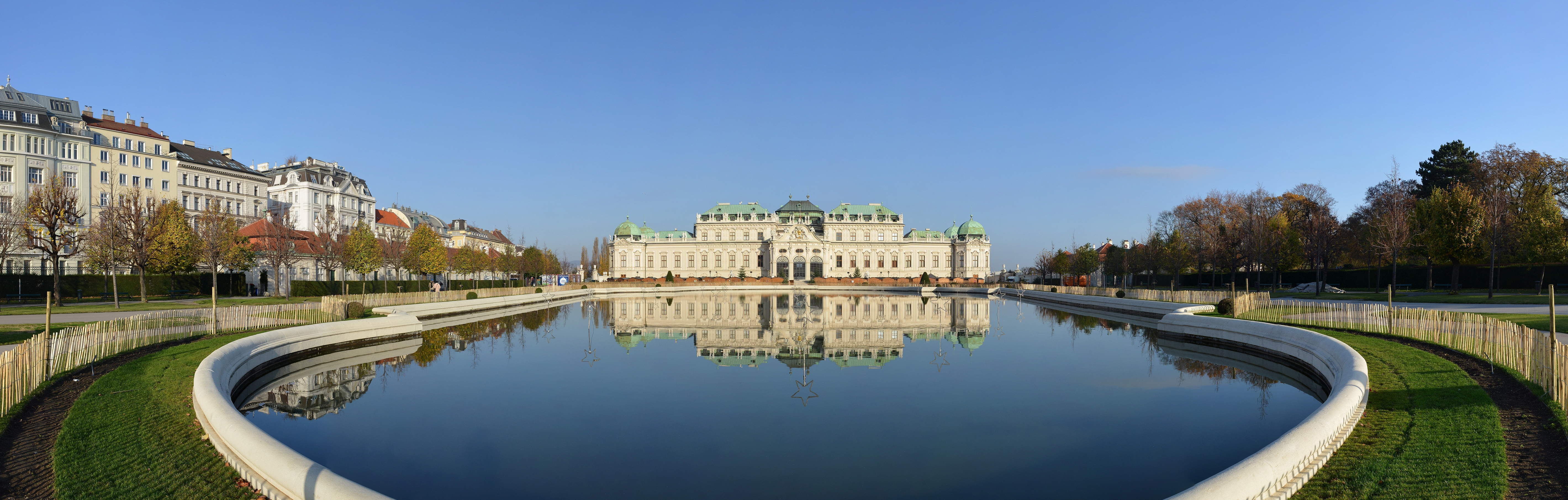 The Belvedere is a historic building complex in Vienna, Austria, consisting of two Baroque palaces (the Upper and Lower Belvedere), the Orangery, and the Palace Stables. The buildings are set in a Baroque park landscape in the 3rd district of the city, south-east of its centre. It houses the Belvedere museum. The grounds are set on a gentle gradient and include decorative tiered fountains and cascades, Baroque sculptures, and majestic wrought iron gates. The Baroque palace complex was built as a summer residence for Prince Eugene of Savoy. NOTE: This image is a panorama consisting of multiple frames that were merged or stitched in software. As a result, this image necessarily underwent some form of digital manipulation. These manipulations may include blending, blurring, cloning, and colour and perspective adjustments. As a result of these adjustments, the image content may be slightly different from reality at the points where multiple images were combined. This manipulation is often required due to lens, perspective, and parallax distortions.